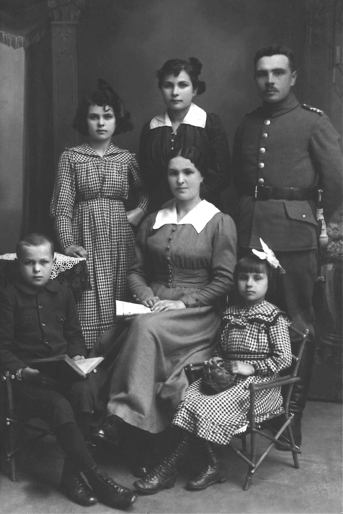 Czesław Trzciński with his parents and sisters